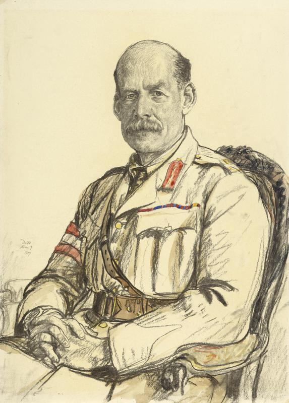 Lieut-general Sir Arthur Edward Aveling Holland, Cb, Mvo, Dso image: a half length portrait of Lieutenant-General Sir Arthur Holland in uniform, seated with his hands interlaced on his lap.